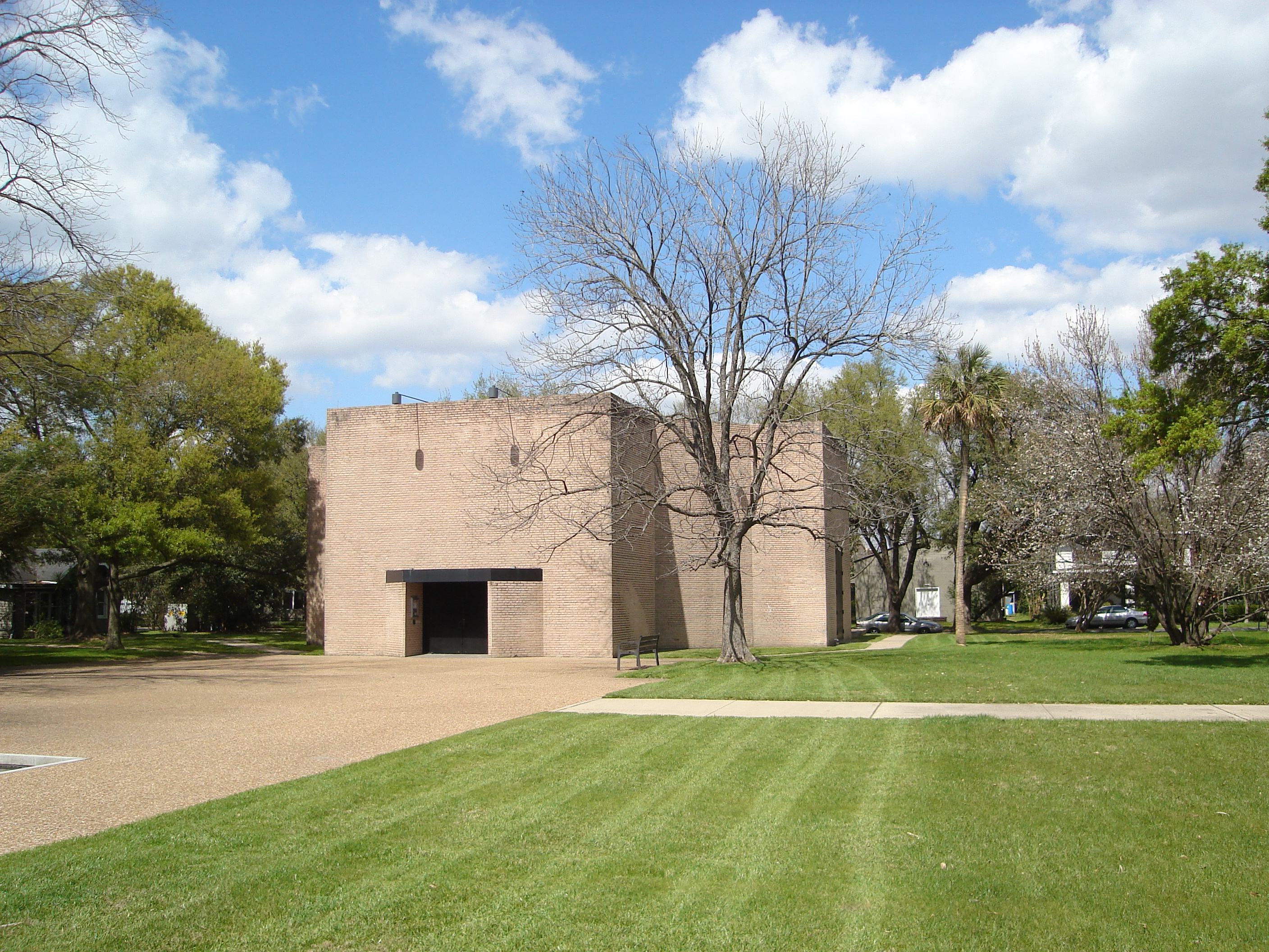 Rothko Chapel, Houston, March 2007.